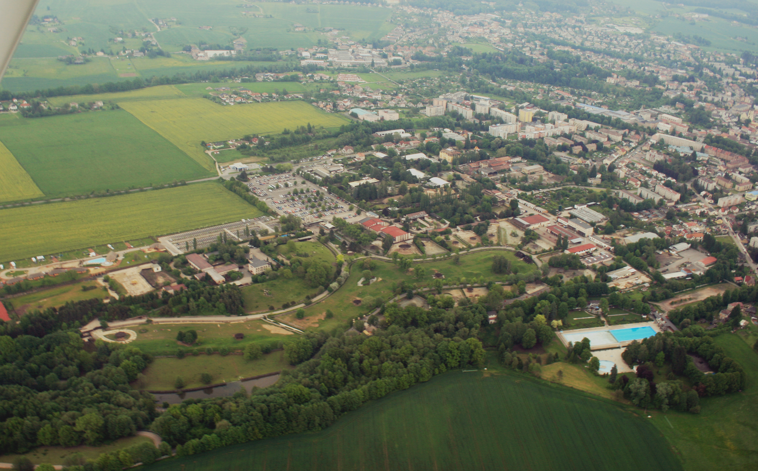 Town Dvůr Králové nad Labem, mainly Zoo-park from air, eastern Bohemia, Czech Republic